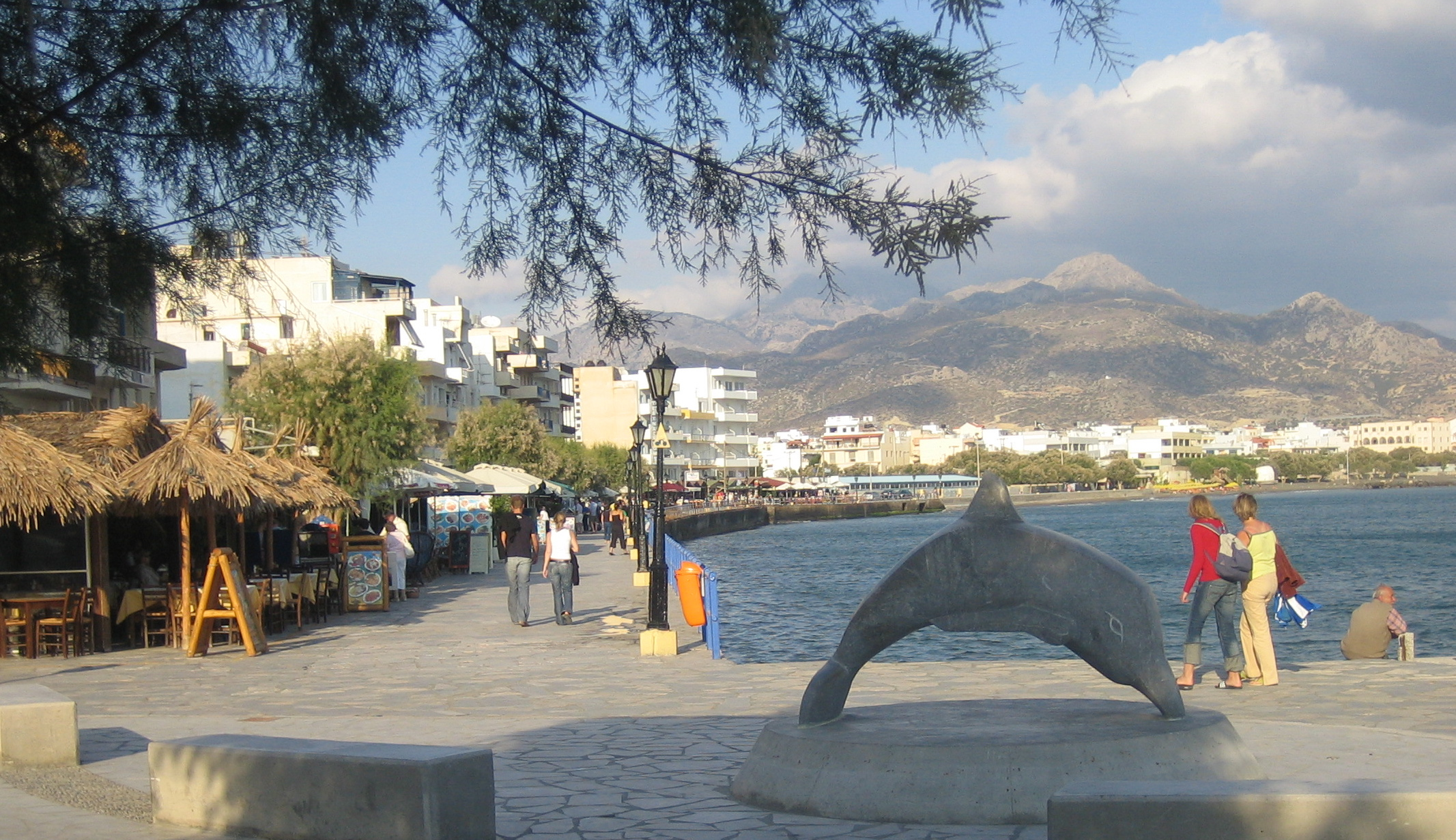 View Over Ierapetra Bay